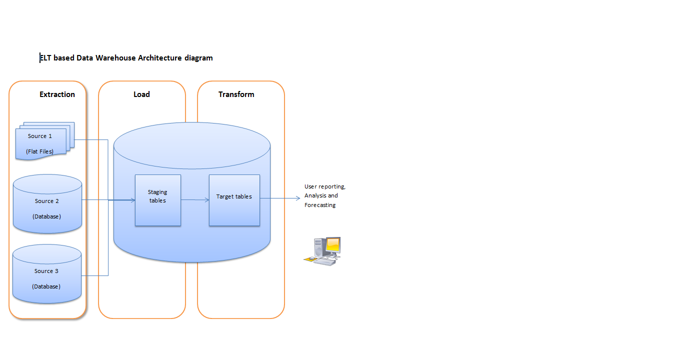 This explains the process flow of Extract, Load and transform approach based of data warehouse architecture.